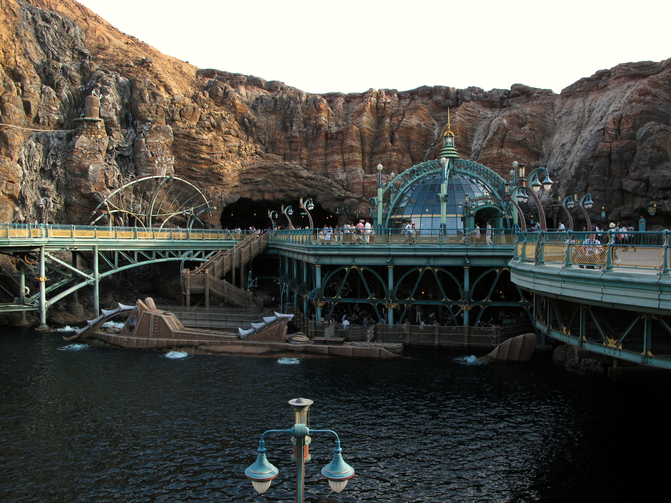 Tokyo Disneysea The Mysteries of the Nautilus_